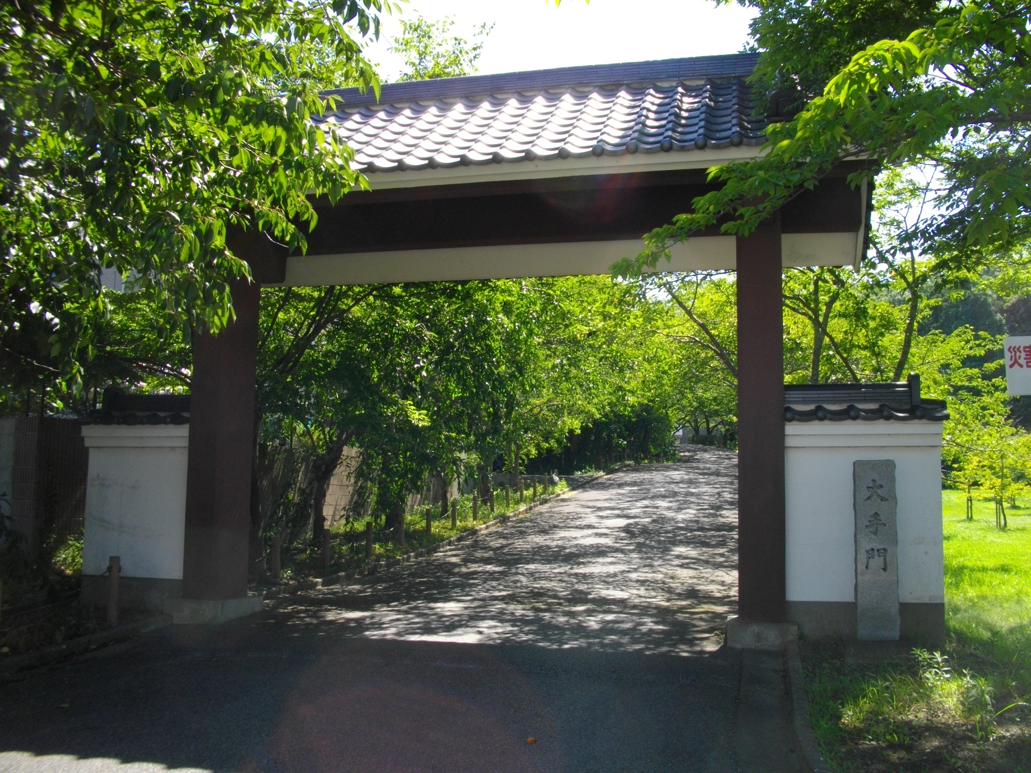 Ruins of Ichinomiya Castle (Chiba)